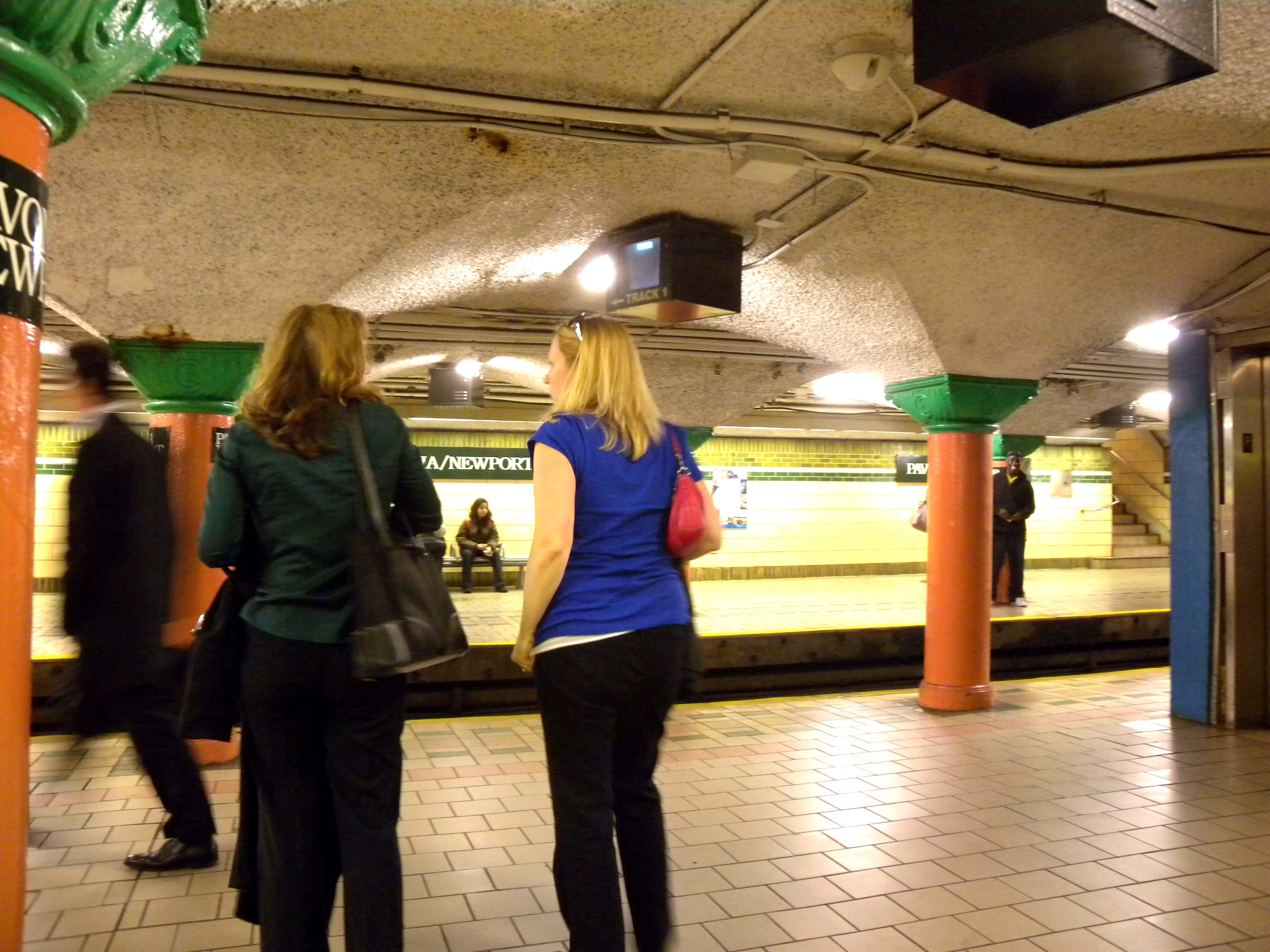 Looking southeast across platform of Pavonia/Newport (PATH station). See also File:Path to Pavonia, Newport PATH Station.jpg.